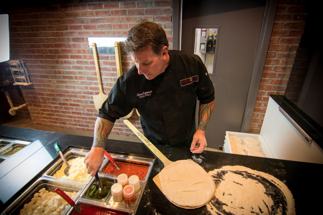 Glenn selects his pizza toppings